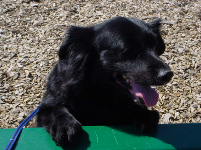 CoolFox's dog, Isn't she just so darned cute?